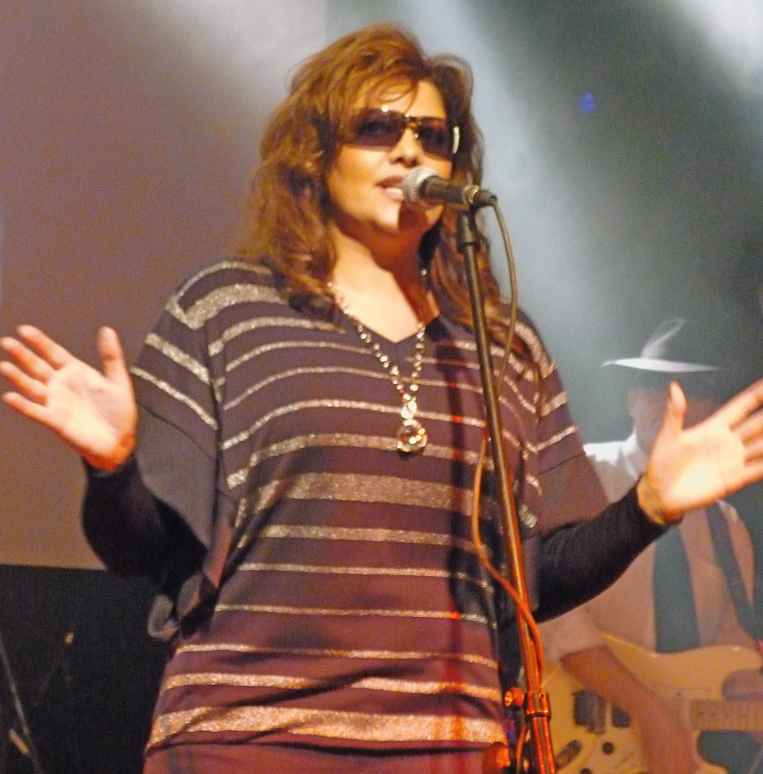 singer Ilona Csakova Česky: 2009 Ilona Csakova s Laurou a jejimi tygry LIVE